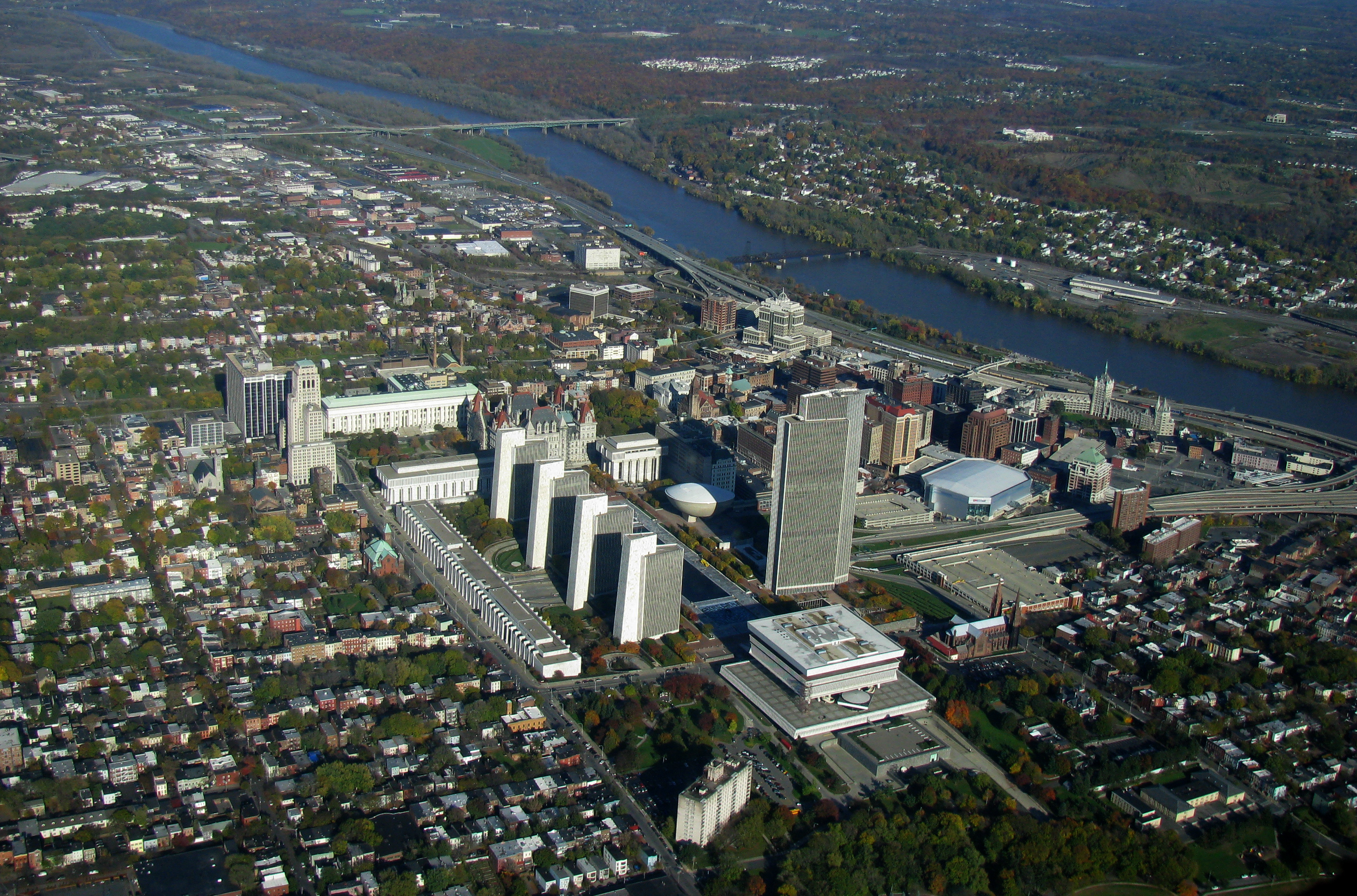 Aerial view of the Hudson River and the city of Albany, the capital of New York